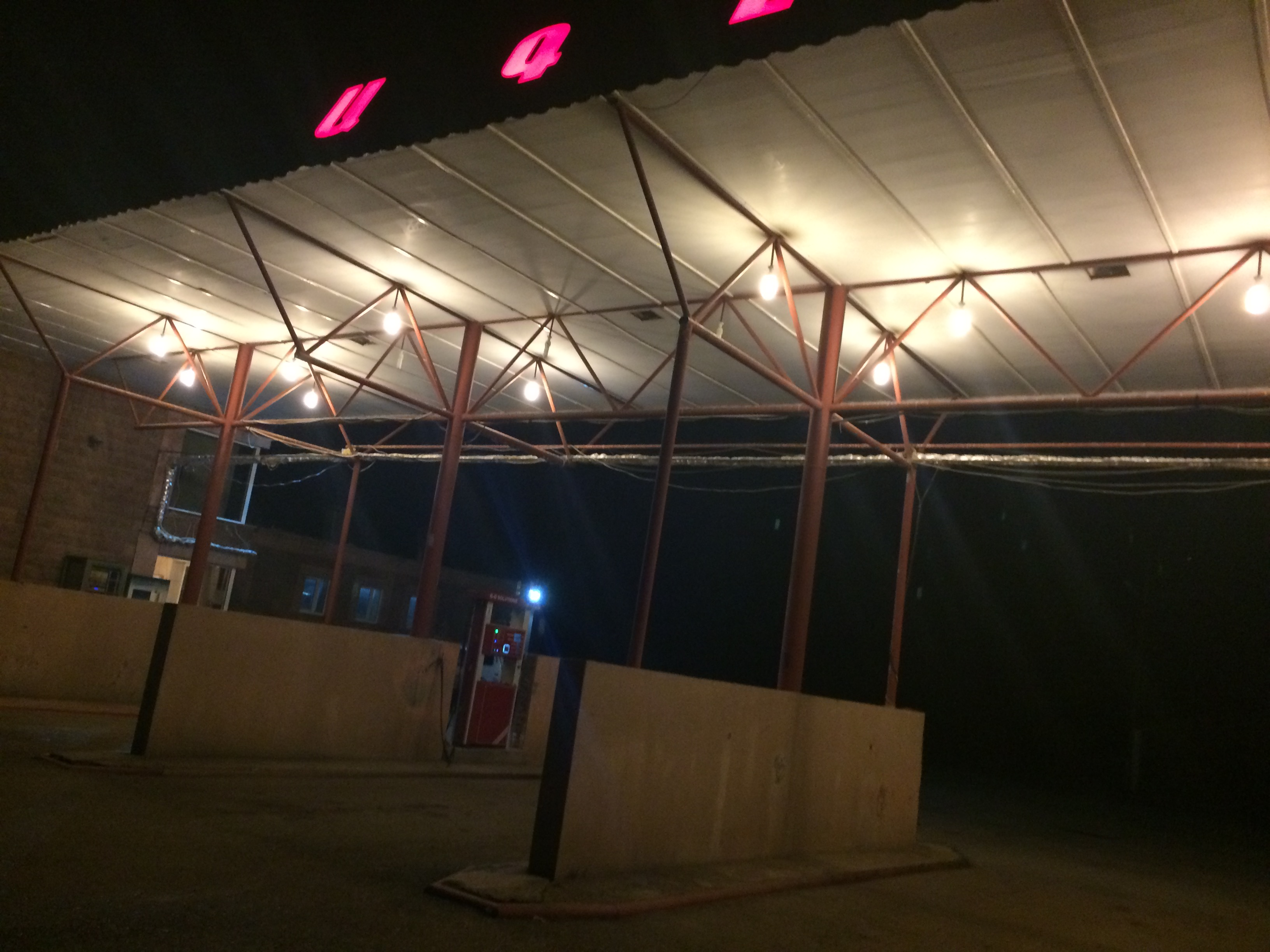 Maralik Gas Station.